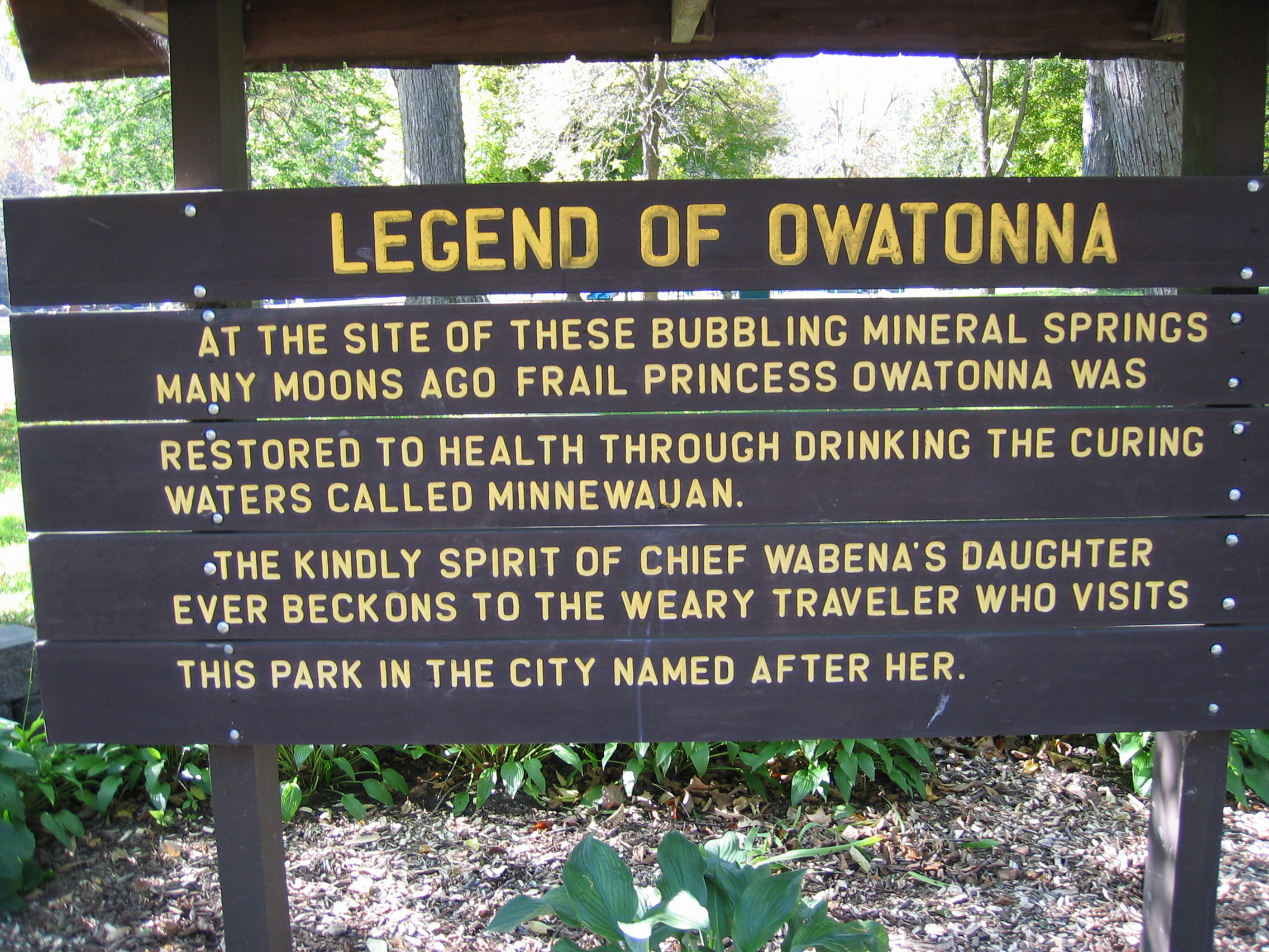 Photo of the Legend of Owatonna sign located at Mineral Springs Park, Owatonna, MN.